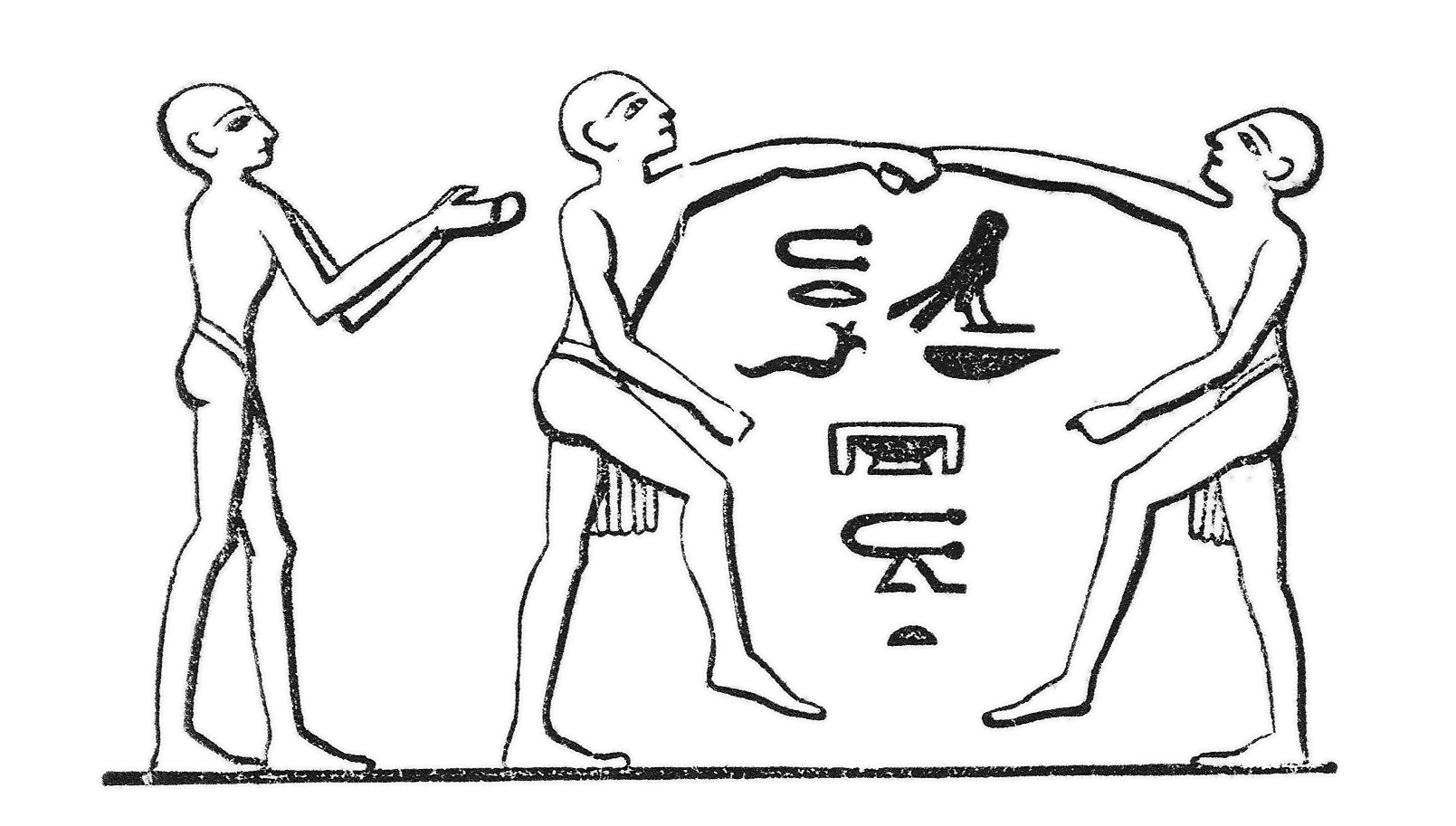 Illustration from "Illustrerad verldshistoria utgifven av E. Wallis. band I": Egyptian dance